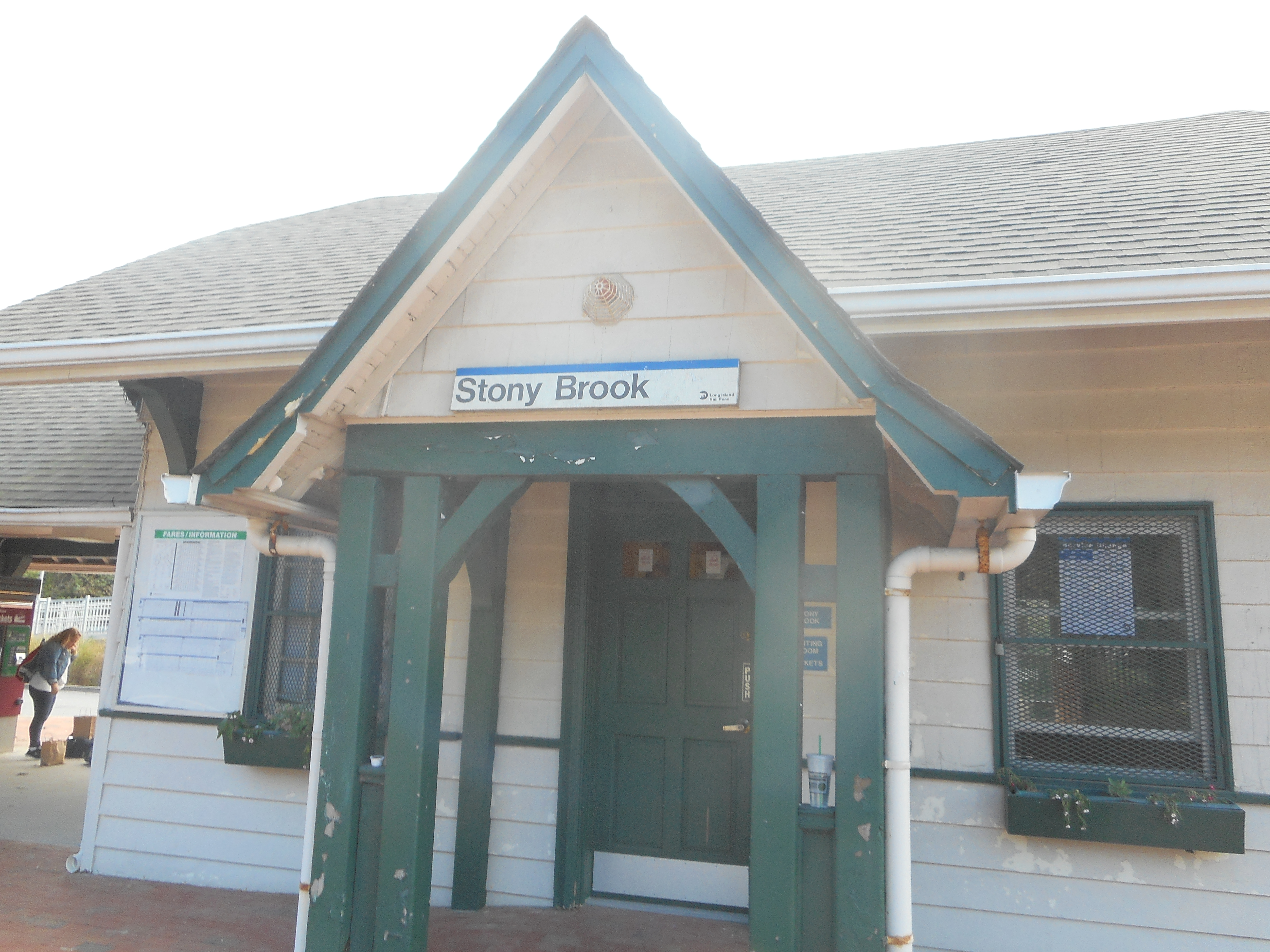 Entrance to Stony Brook (LIRR station) facing New York State Route 25A in Stony Brook, New York. A standard LIRR Helvetica sign has been placed over the door, but otherwise the exterior of the station is in relatively the same condition as it was a century earlier.